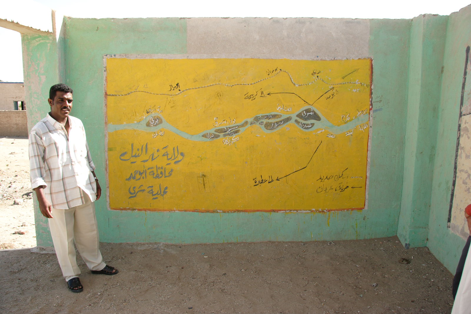 The only public map of Dar al-Manasir - mural on the Central Square of Shiri, Shiri Island, Nubia - northern Sudan. (c) GFDL David Haberlah (Homepage of David Haberlah, )